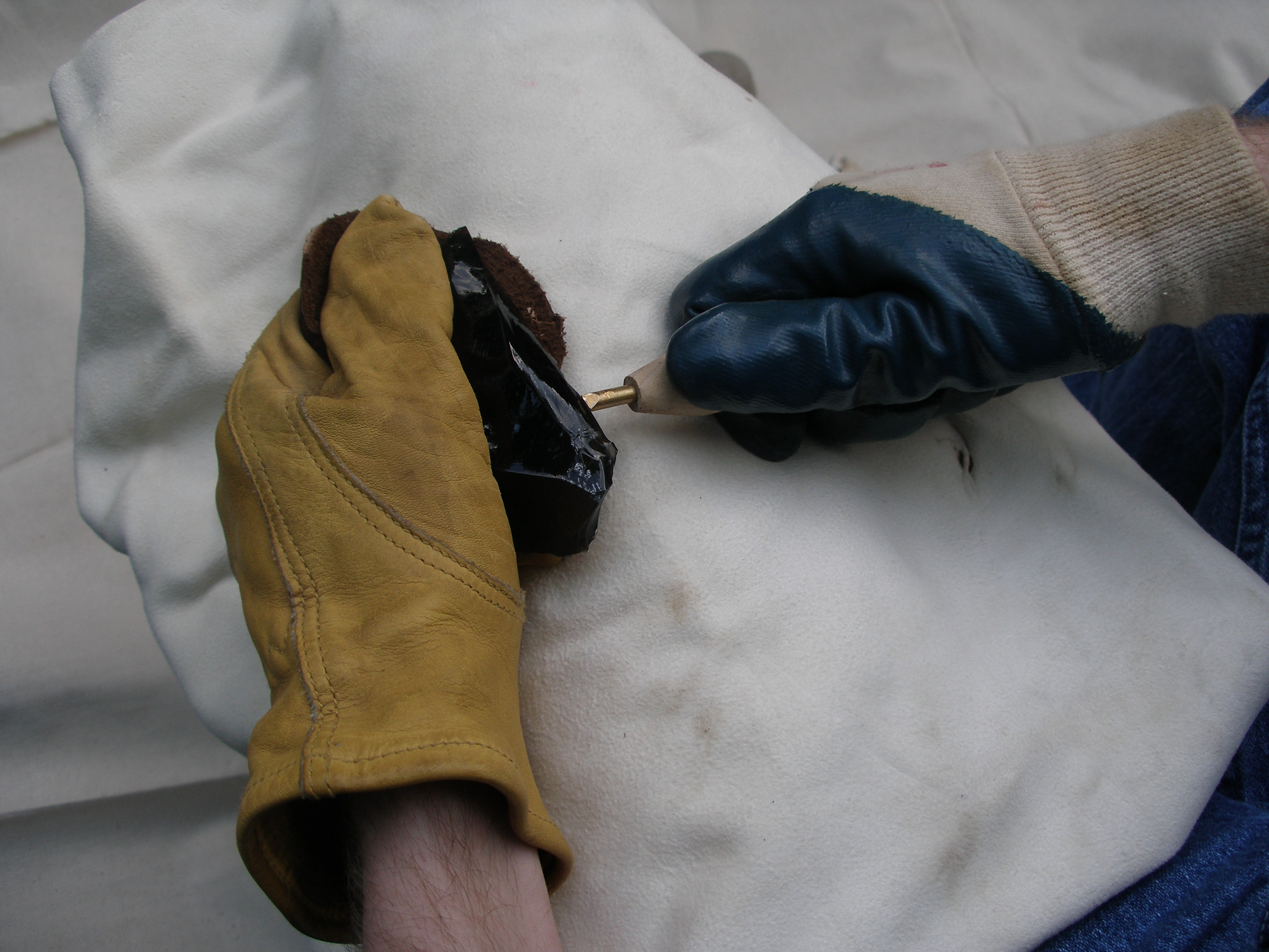 An example of pressure flaking used in flintknapping. ZenTrowel